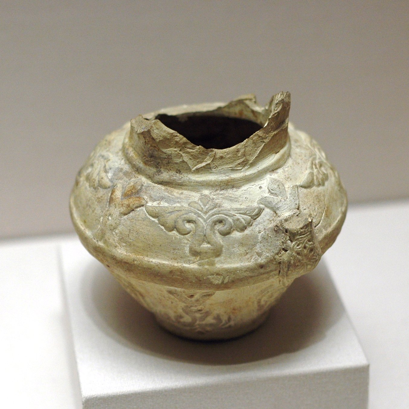 Jug.